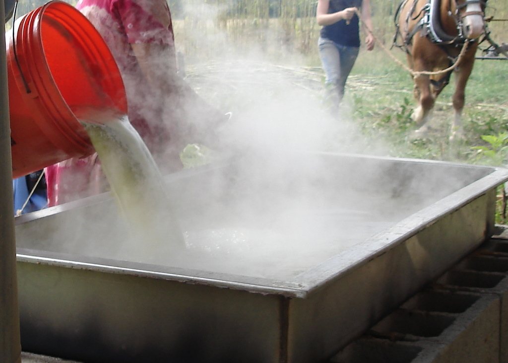 farmers add freshly squeezed cane juice to the simmering pan over an open fire, while making sorghum molasses, in central North Carolina